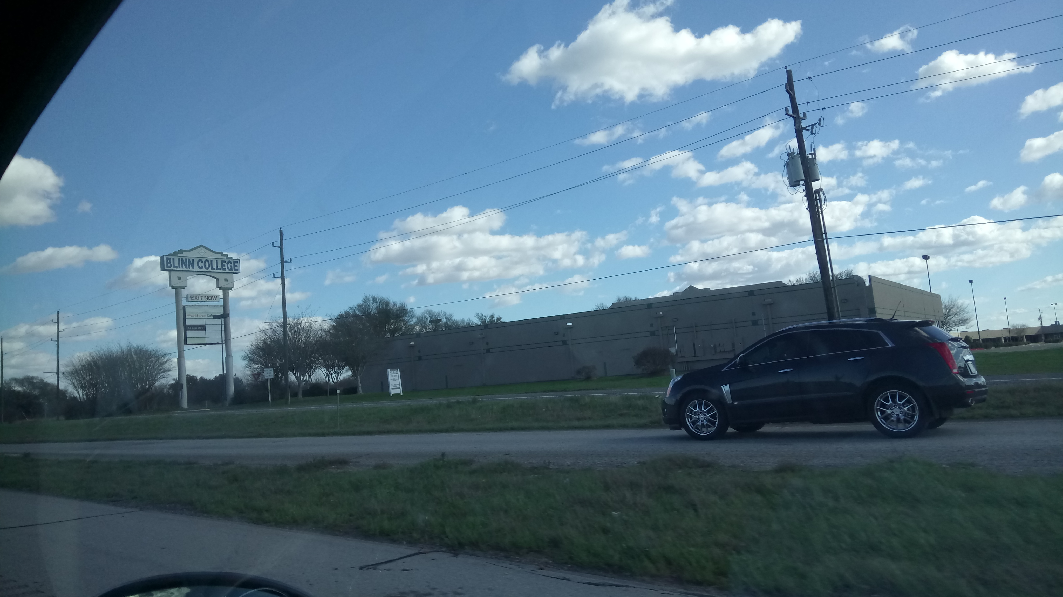 Blinn College Sealy